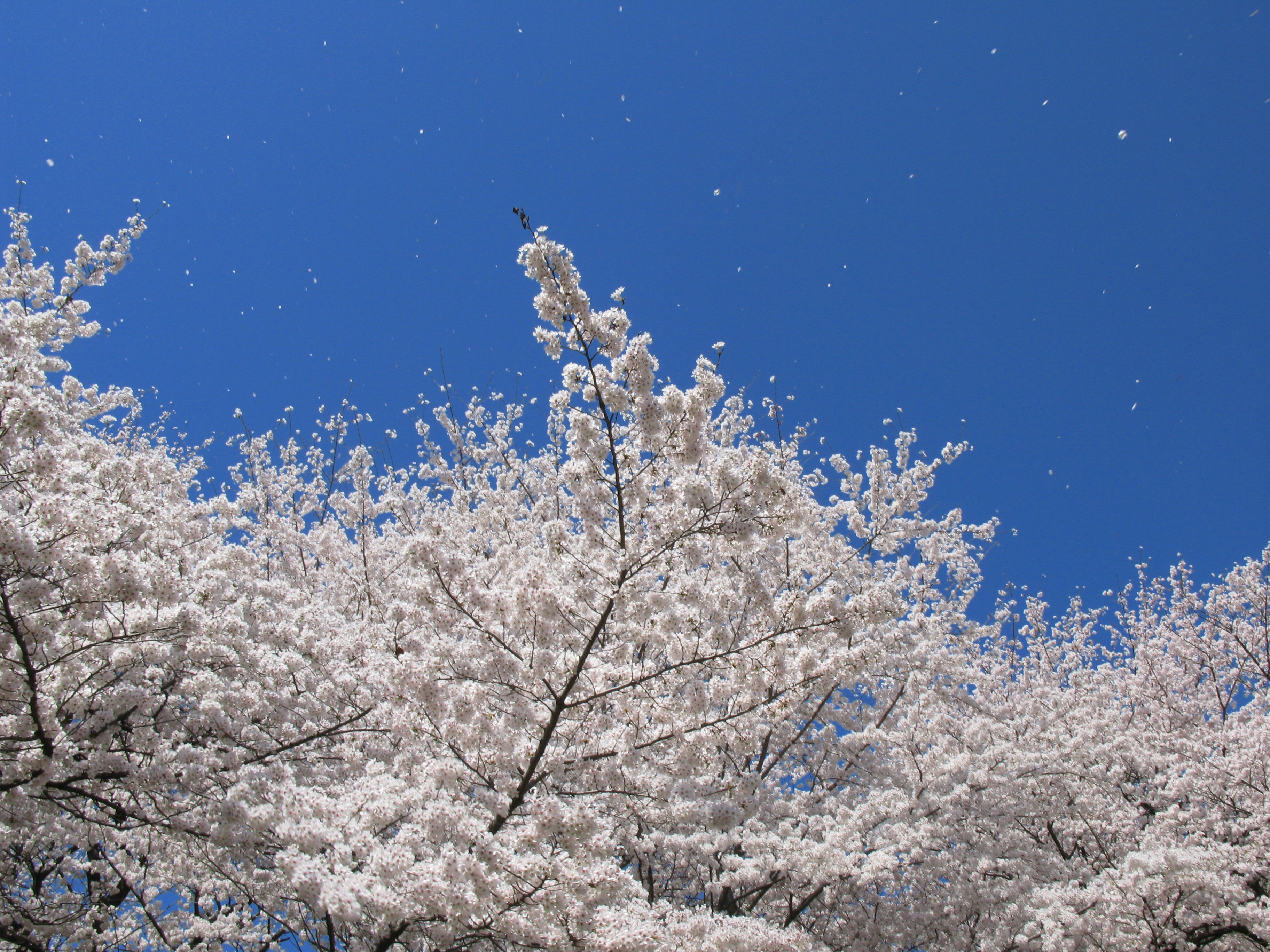 The following is the author's description of the photograph quoted directly from the photograph's Flickr page. "Omiya park Saitama city Saitama-ken(Prefecture), Japan 埼玉県 大宮公園 "